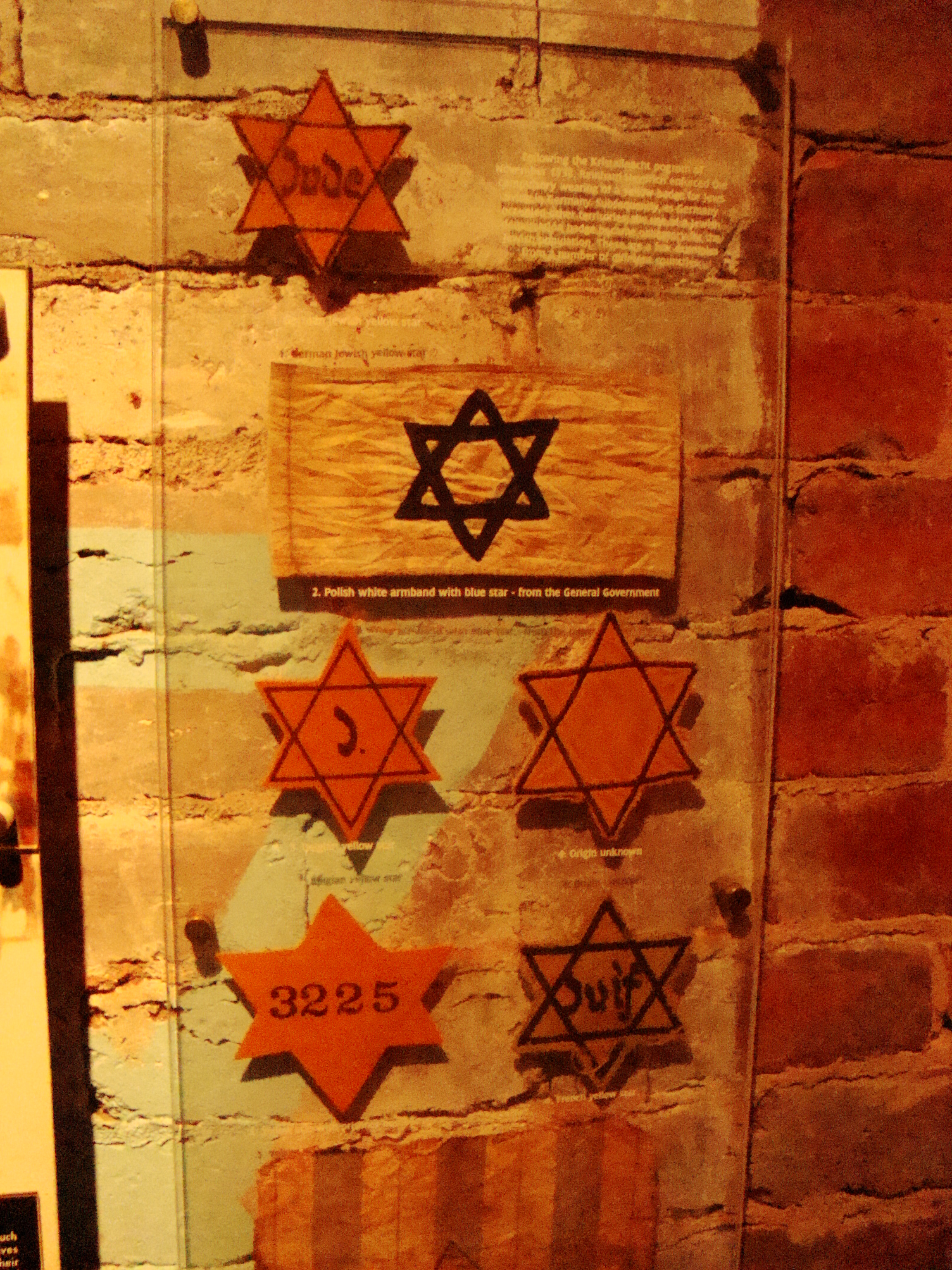 Stars of David from various concentration camps, on display at the Beth Shalom Holocaust Memorial Centre